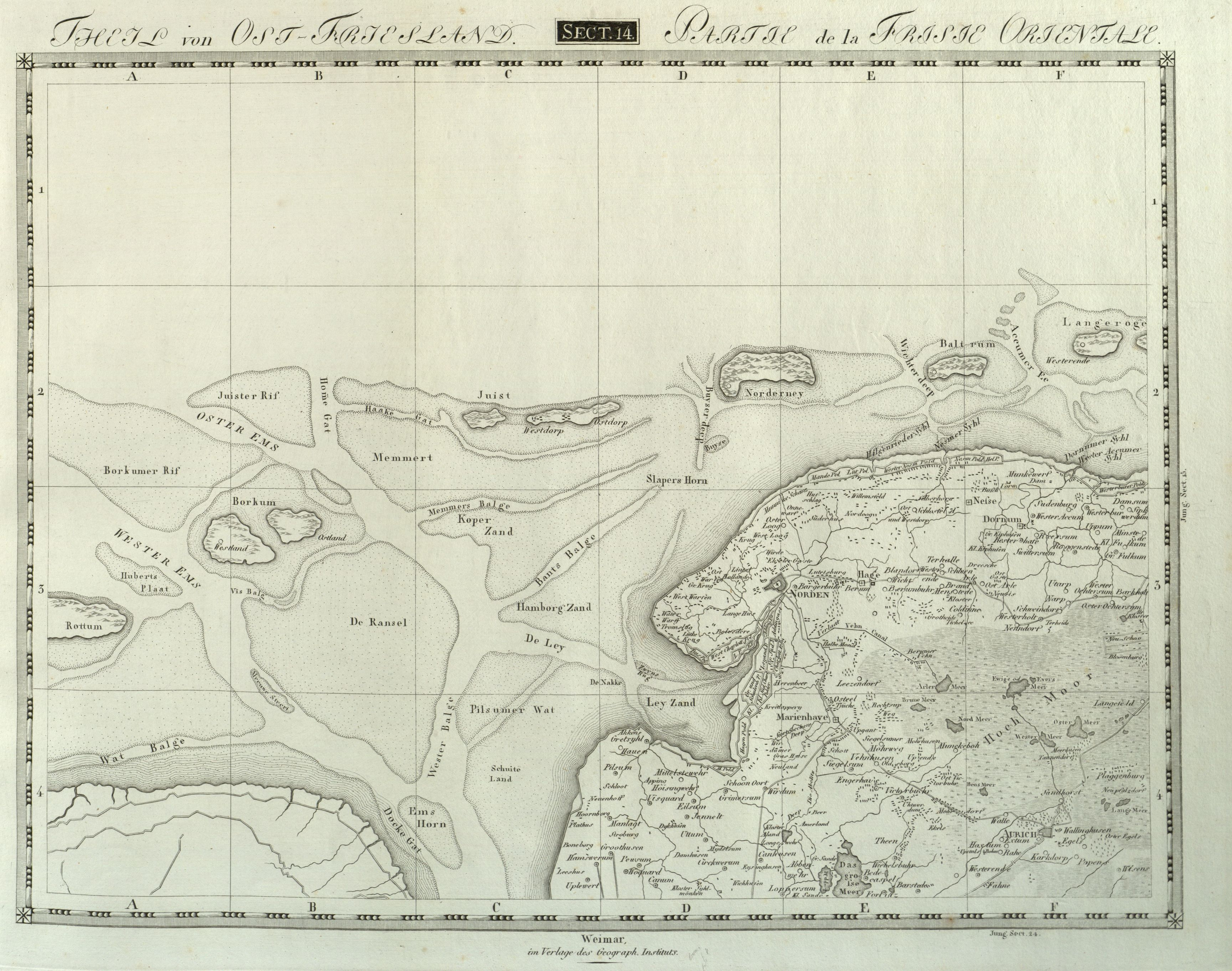 Topographisch-militairische Charte von Teutschland